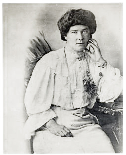 Ann McCormack (nee Rooney)